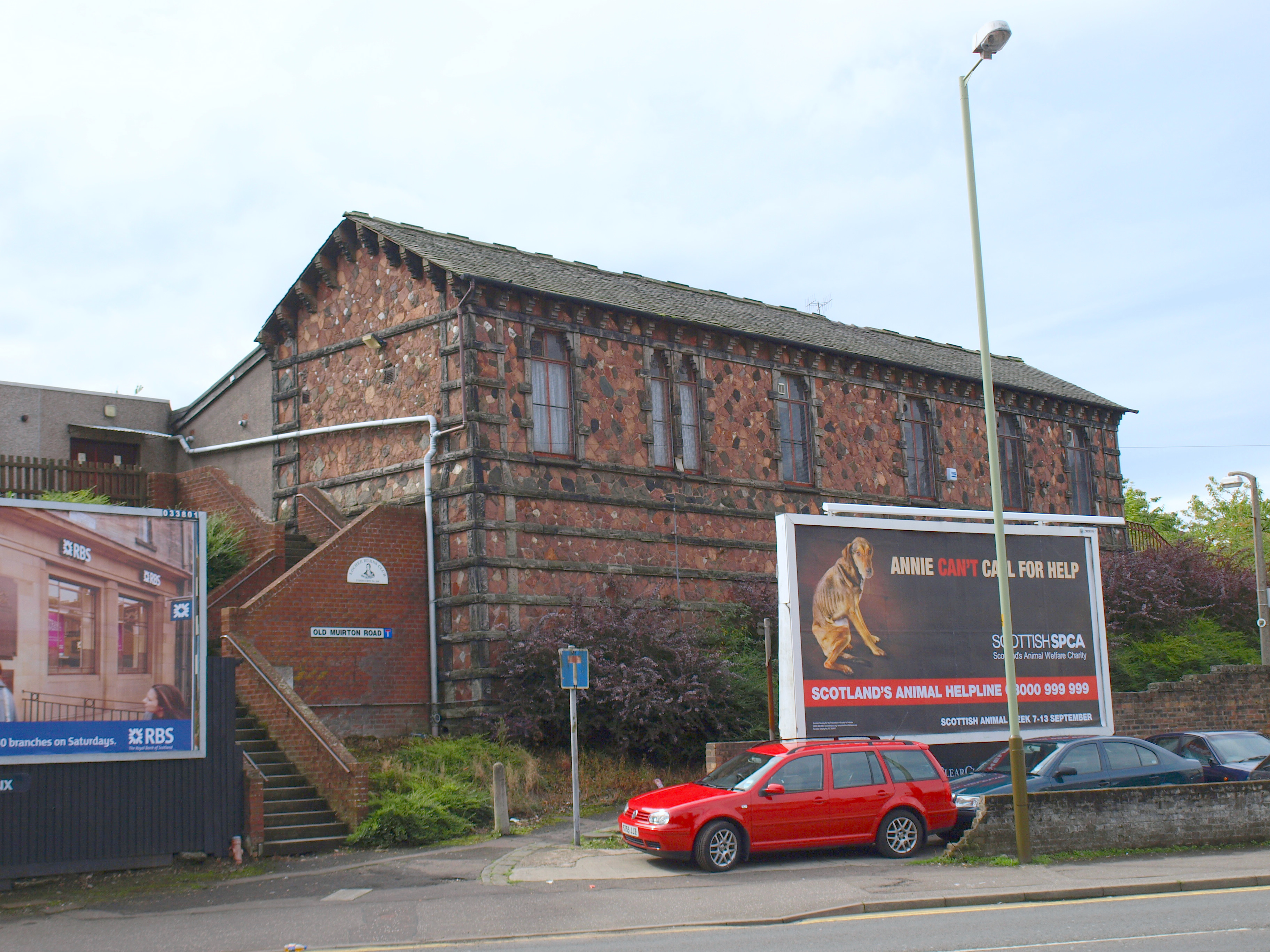 Old 1861 station of Lochee High Street which closed in 1955. It is now the local Burns Club. This was one of four stations constructed in 1861 on a short deviation of the Dundee & Newtyle Railway which opened in 1831. Both the posters have a meaning to me.